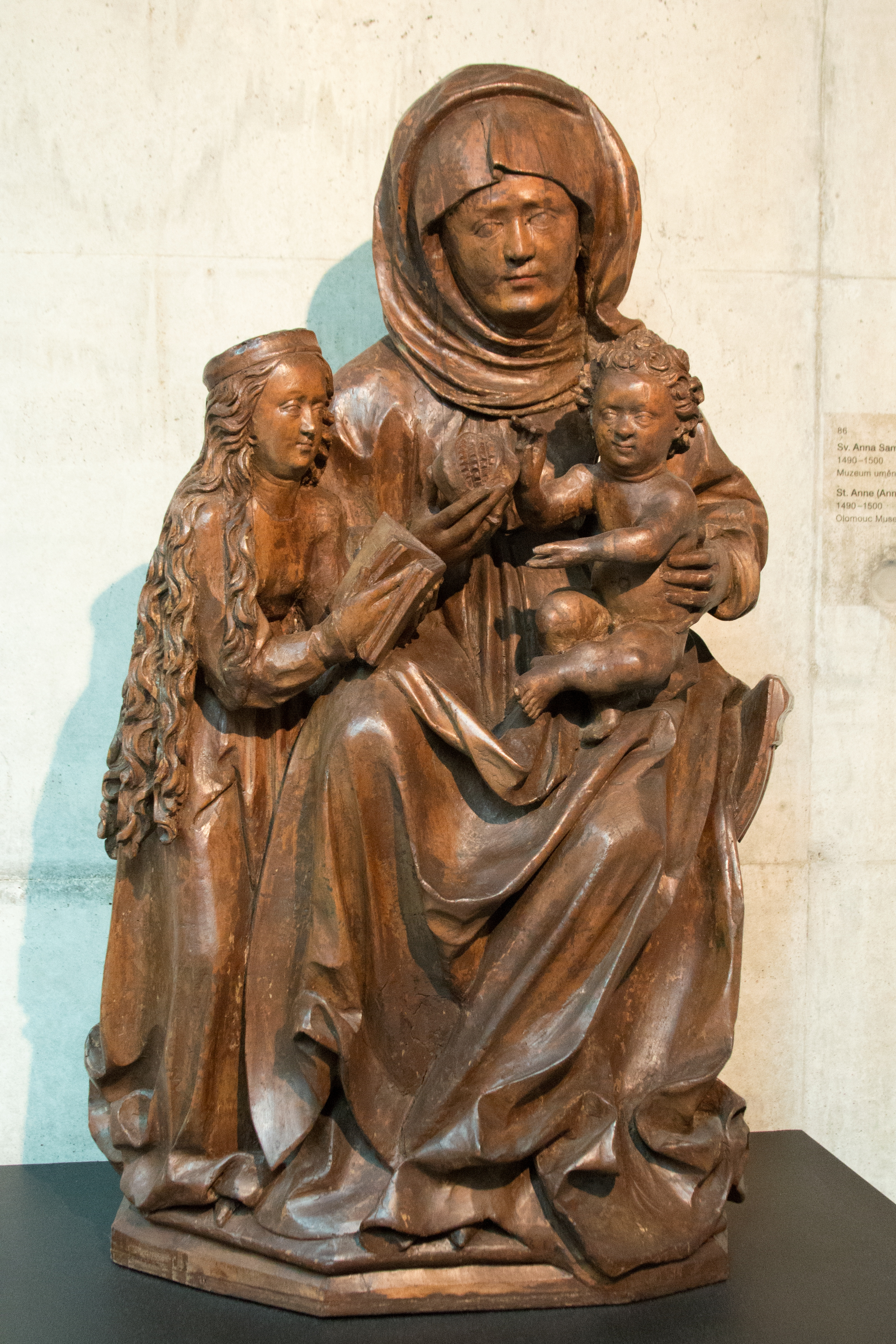 St. Anne (Anna Selbdritt), 1490-1500 AD. Olomouc Museum of Art. Collections of Archbishopric Museum in Olomouc.